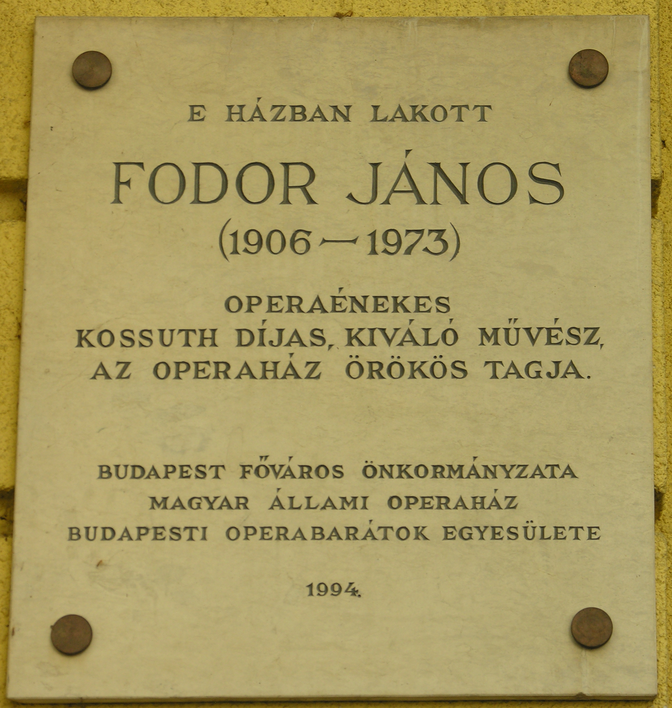 János Fodor (opera vocalist) commemorative plaque in Budapest District VI, Liszt Ferenc Square No 4